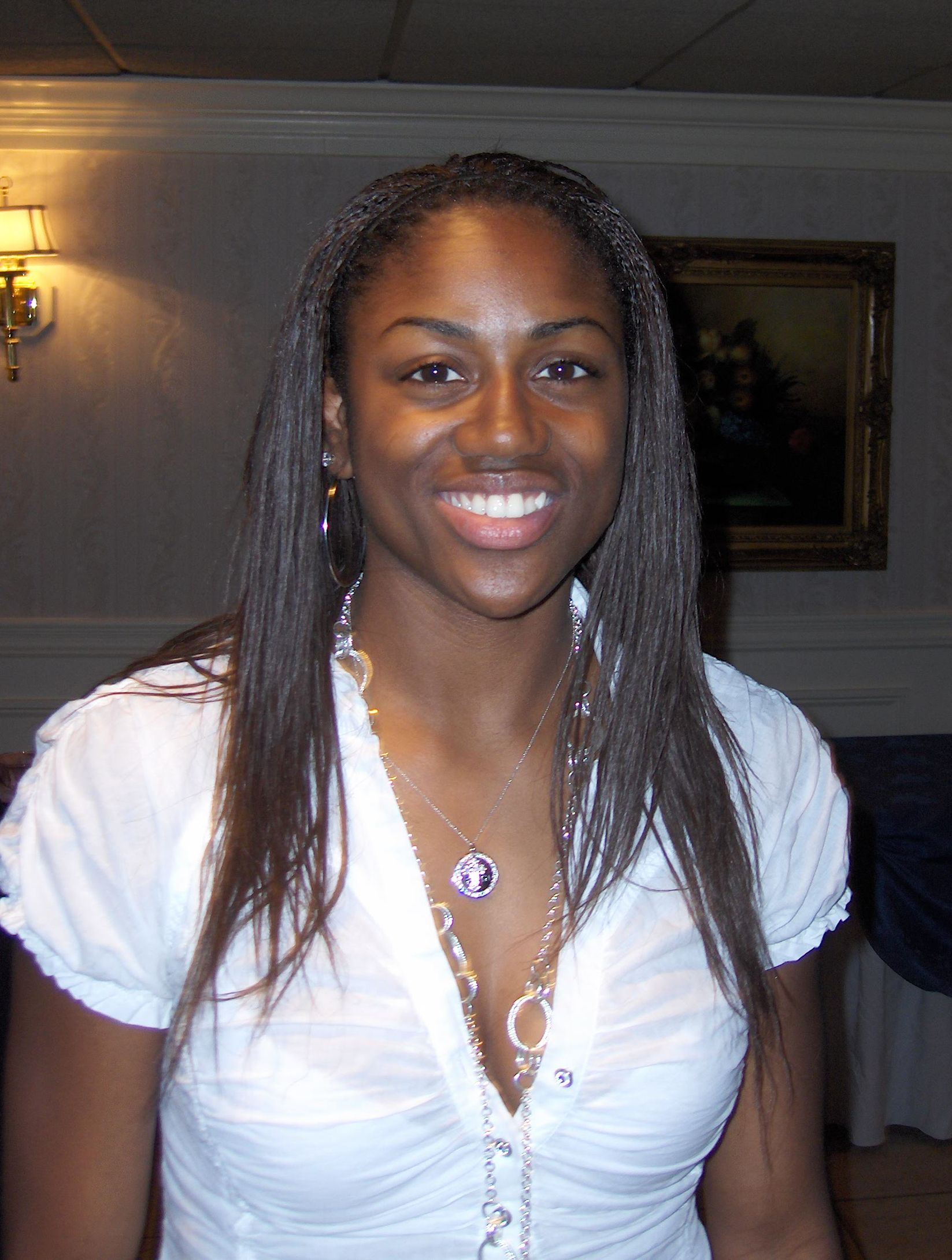 Tiffany Hayes, taken at the Championship Dinner